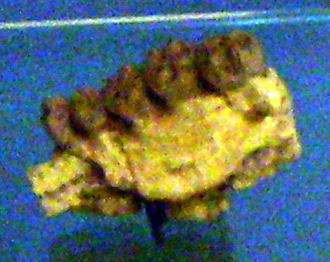 Samburupithecus kiptalami fossil, Muséum national d'histoire naturelle, Paris.